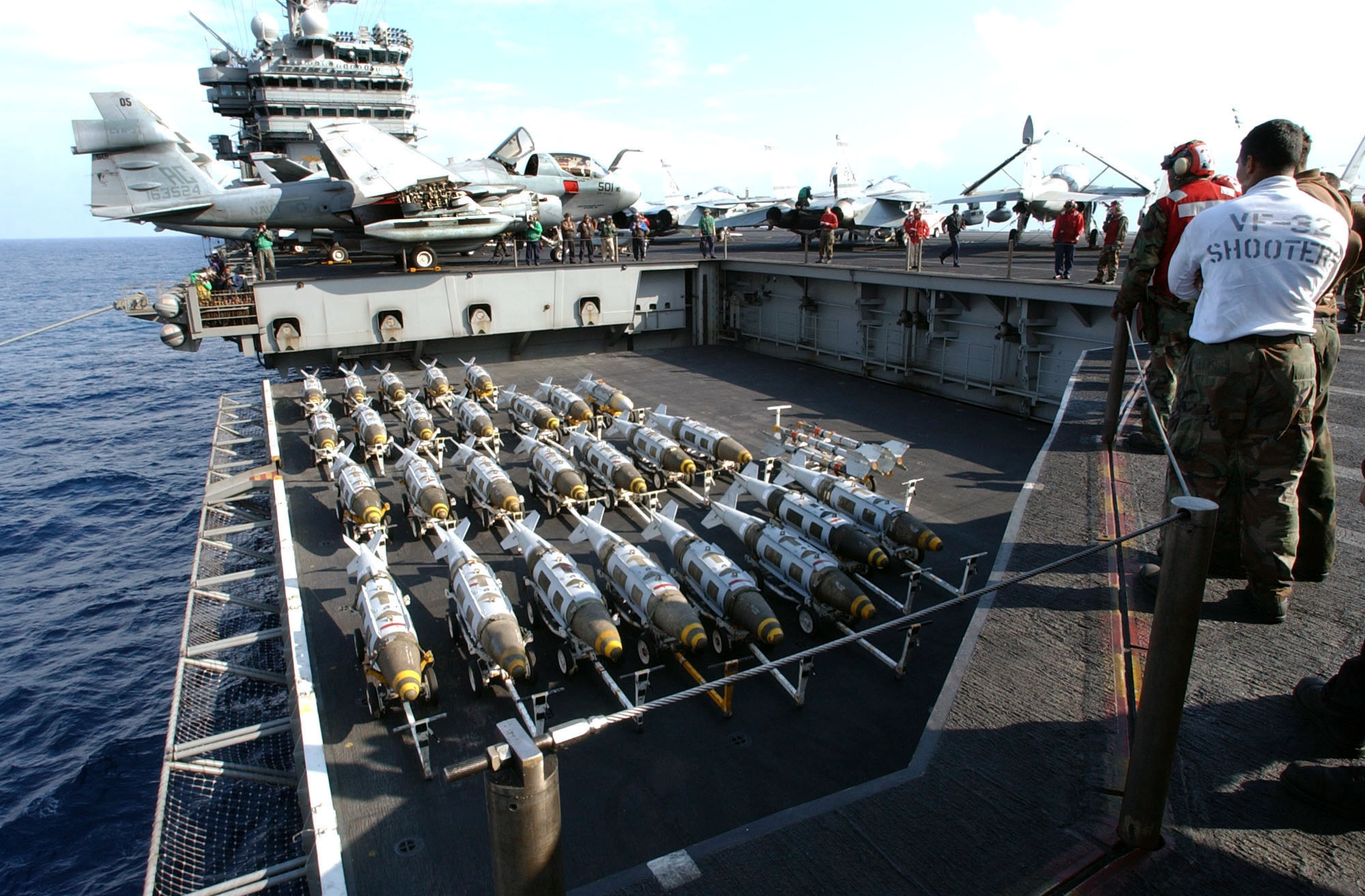 The Mediterranean (Mar. 21, 2003) -- On the flight deck aboard the aircraft carrier USS Harry S. Truman (CVN-75), 2000 lbs GBU-31 Joint Direct Attack Munitions (JDAM) are transported to the flight deck by one of four aircraft elevators for loading onto Carrier Air Wing Three (CVW-3) aircraft. Truman and CVW-3 are on deployment conducting combat missions in support of Operation Iraqi Freedom. Operation Iraqi Freedom is the multinational coalition effort to liberate the Iraqi people, eliminate Iraq’s weapons of mass destruction and end the regime of Saddam Hussein. U. S. Navy photo by Photographer's Mate 1st Class Michael W. Pendergrass. (RELEASED)